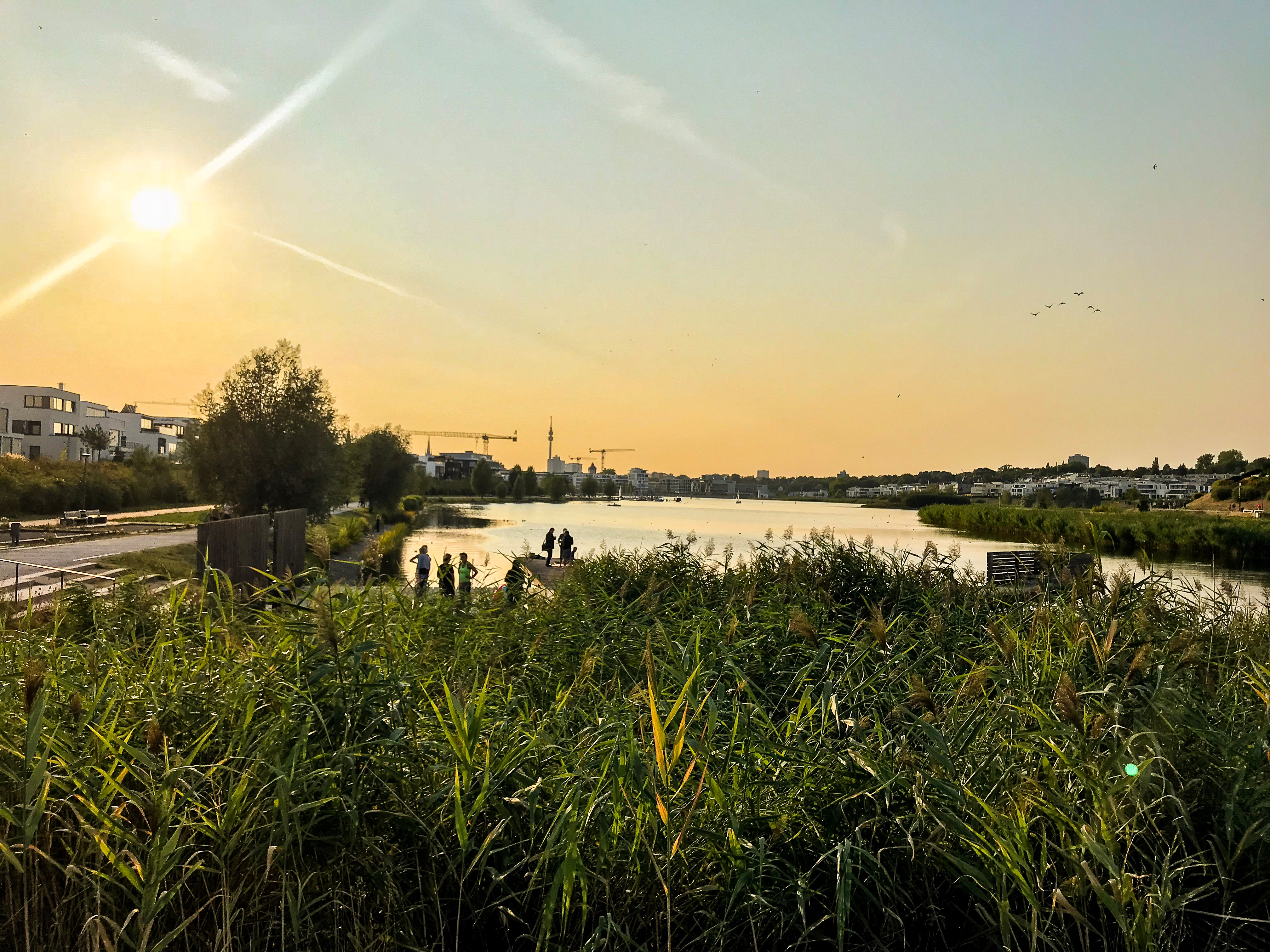 South Bank Lake Phoenix Dortmund